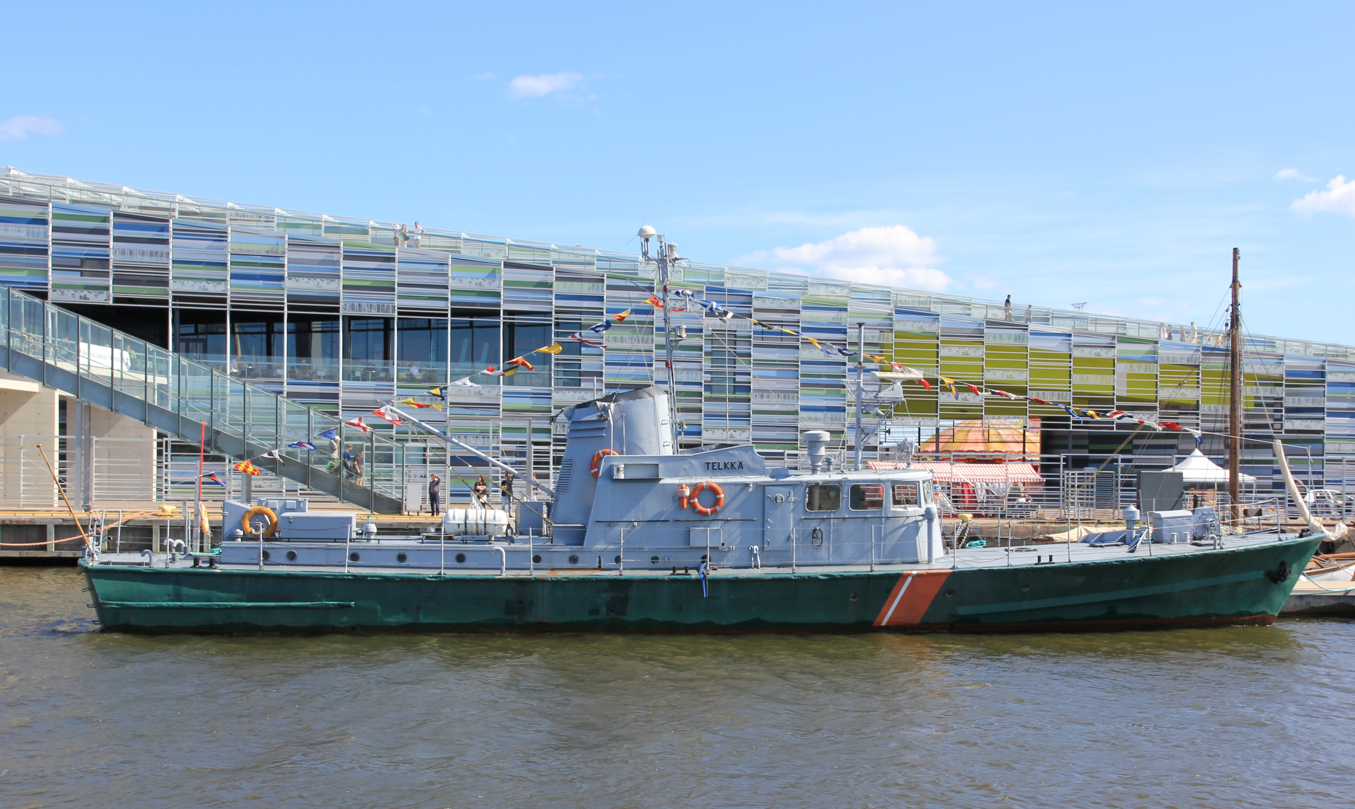 Former Finnish coast guard patrol craft Telkkä in maritime center Vellamo.